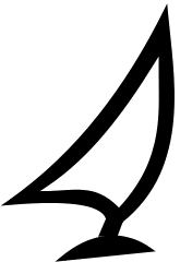 Sail insigna of a windglider surfboard